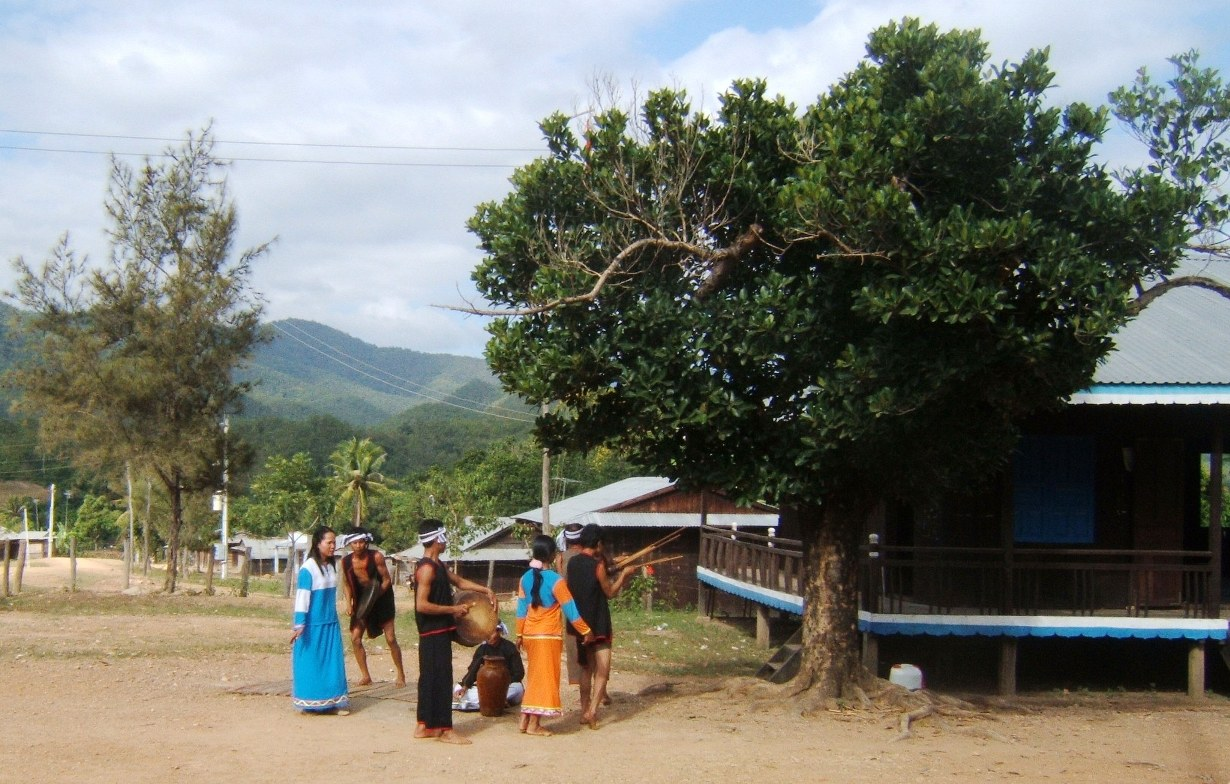 Raglai dance in cultur house of Ma Nới commune, Ninh Thuận province, Vietnam